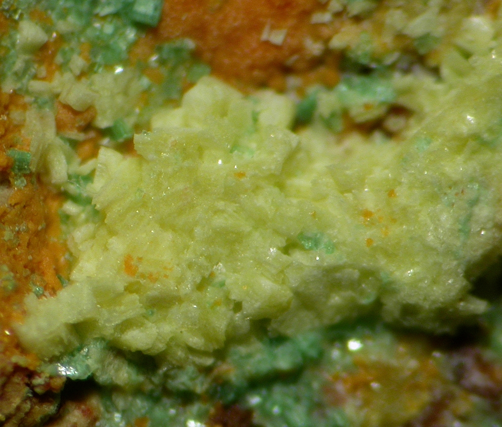 Trögerite Locality: Walpurgis Flacher vein, Weißer Hirsch Mine (Shaft 3), Neustädtel, Schneeberg District, Erzgebirge, Saxony, Germany Light yellow trögerite crystals and some green zeunerite crystals. Field of view 4 mm